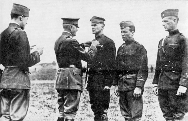 General Pershing (second from left) decorates Brigadier General Douglas MacArthur (third from left) with the Distinguished Service Cross. Major General Charles T. Menoher (left) reads out the citation. Colonel George E. Leach (fourth from left) and Colonel William Joseph Donovan await their decorations.